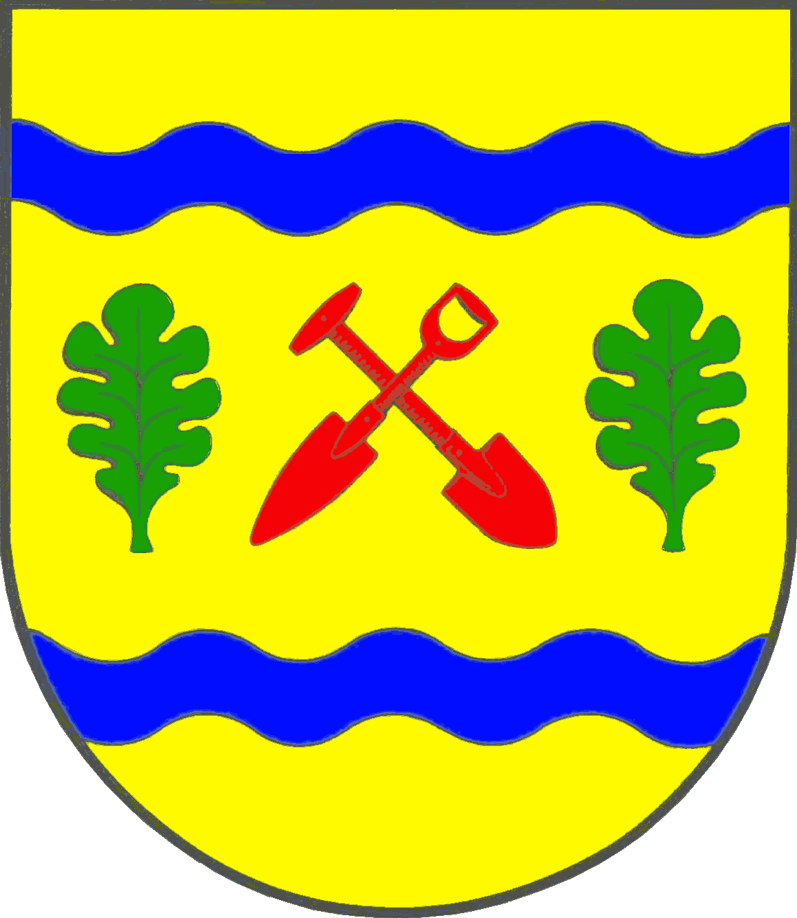 Coat of arms of the municipality Alt Bennebek in Schleswig-Holstein, Germany.